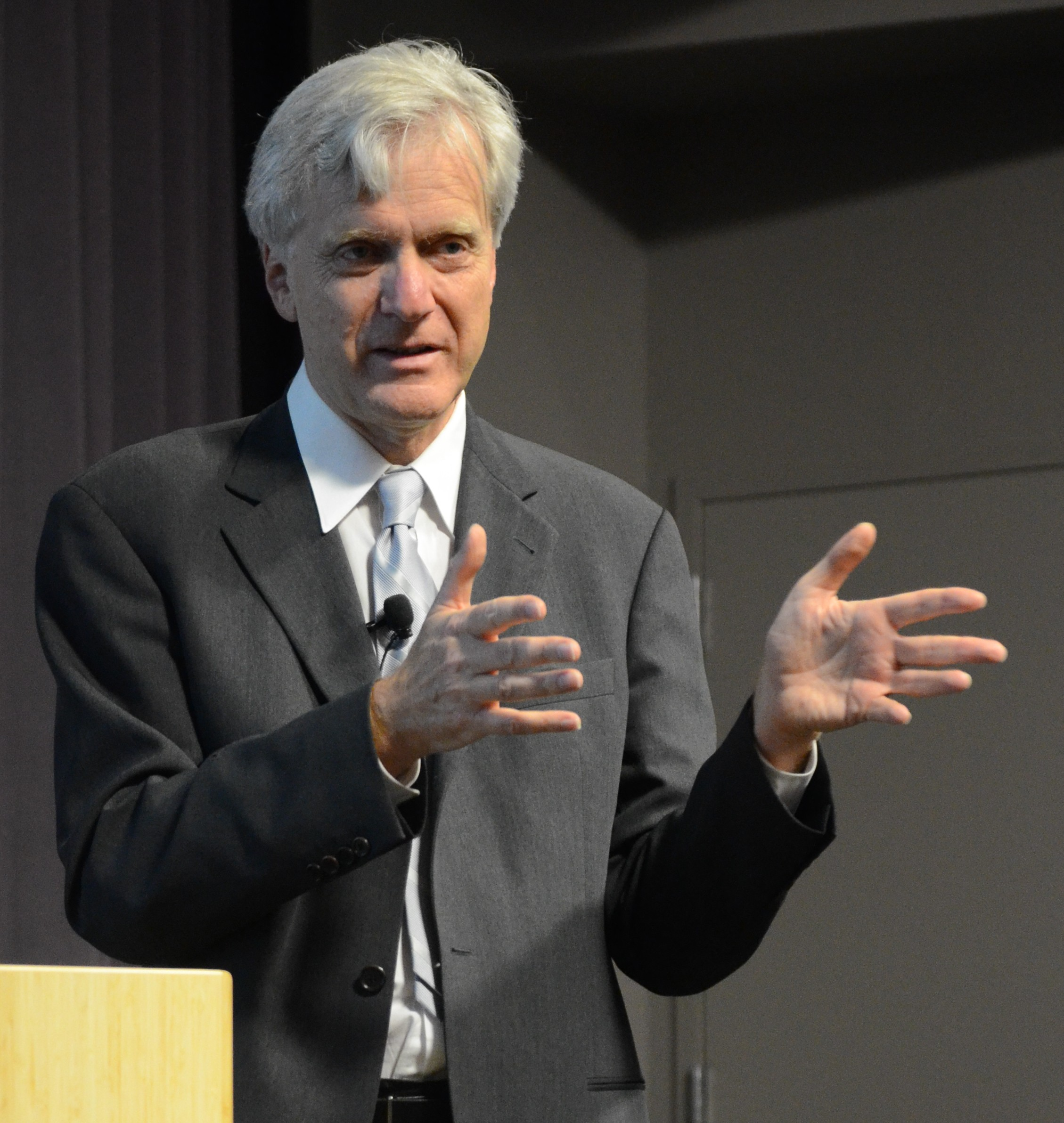 Andreas Bechtolsheim at Stanford holding a lecture on "The Process of Innovation" as part of the Stanford Engineering Hero Lecture series.